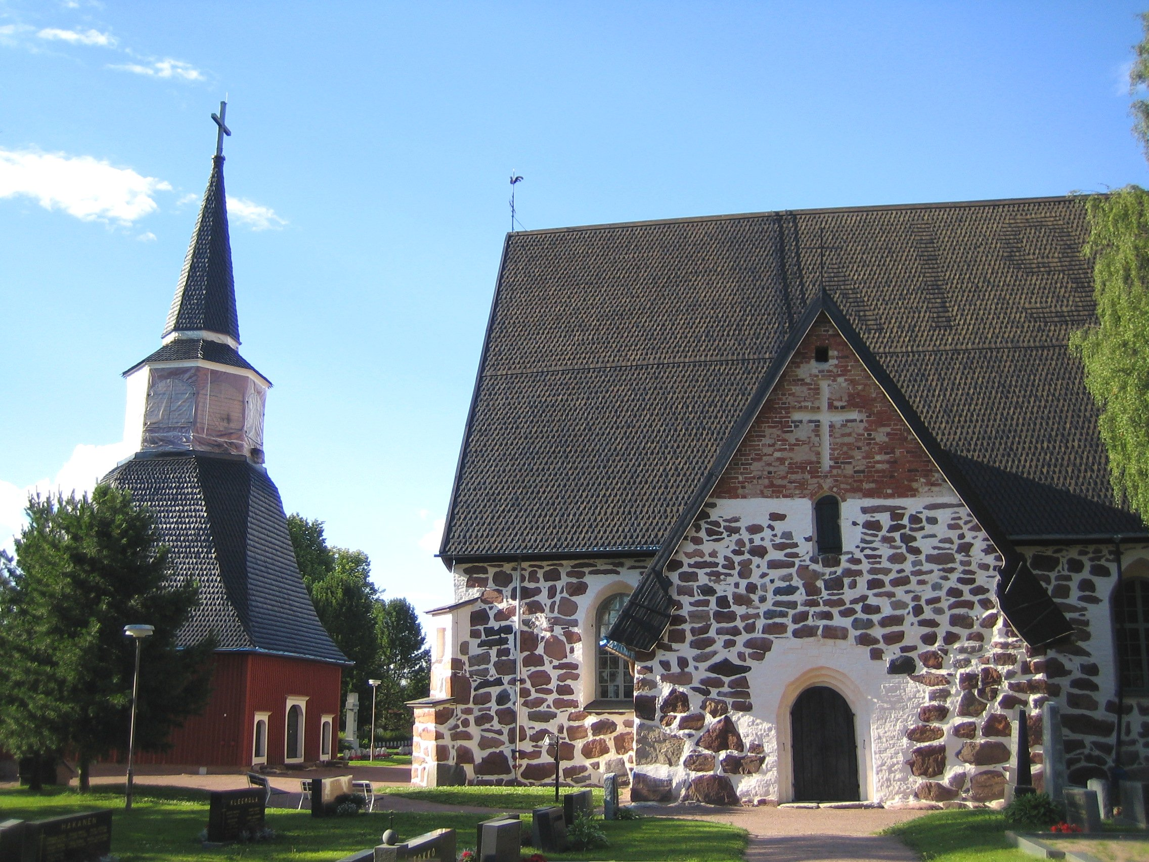 Ulvila Church and Belfry (on the left) in Ulvila, Finland